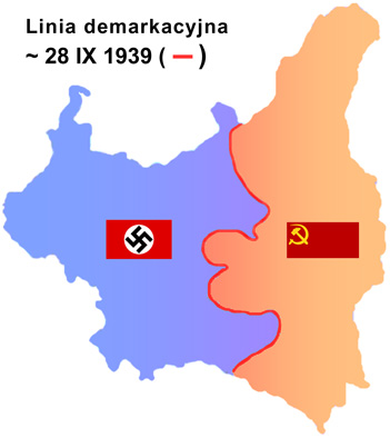 Line of demarcation between German and Soviet military forces after their joint invasion of Poland in September 1939